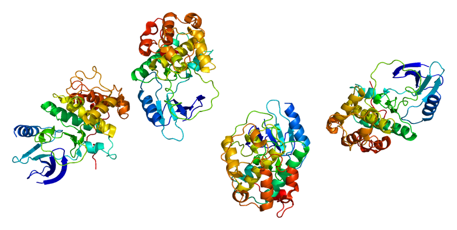 Structure of the CDK7 protein. Based on PyMOL rendering of PDB 1ua2.